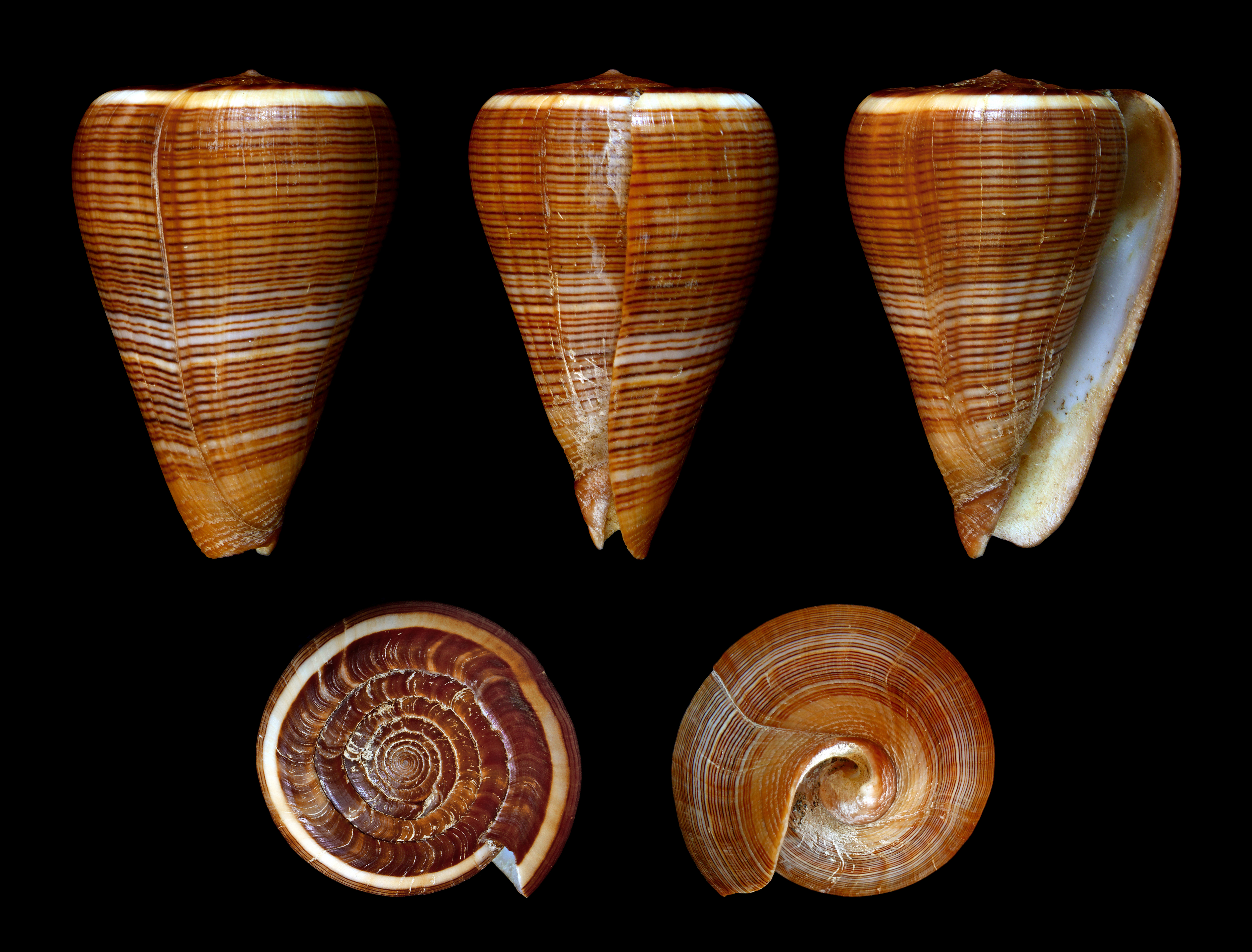 Fig Cone; Length: 8 cm; Originating from the Indo-West-Pacific; Shell of own collection, therefore not geocoded. Dorsal, lateral (right side), ventral, back, and front view.